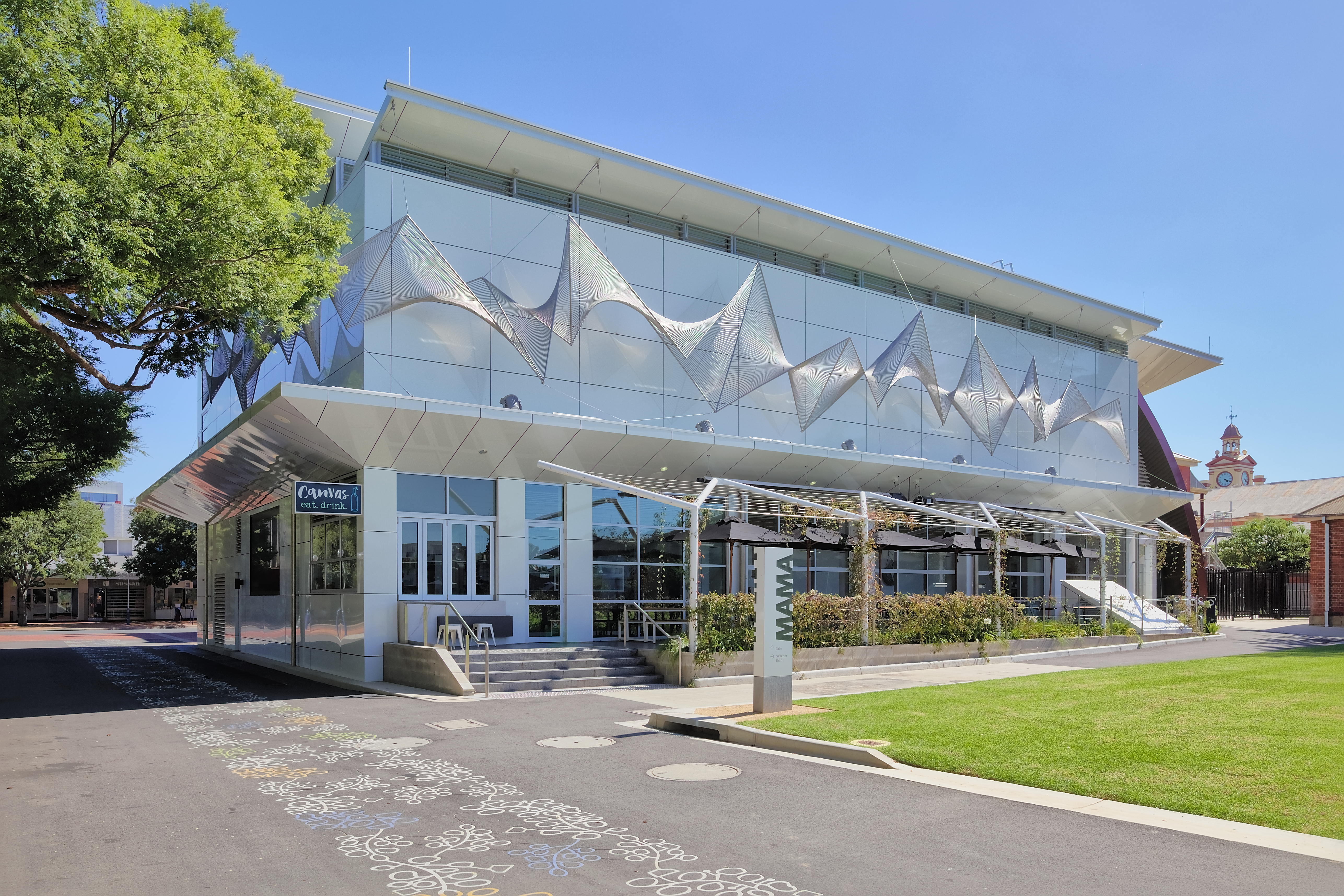 MAMA (Murray Art Gallery Albury) rear, Albury NSW